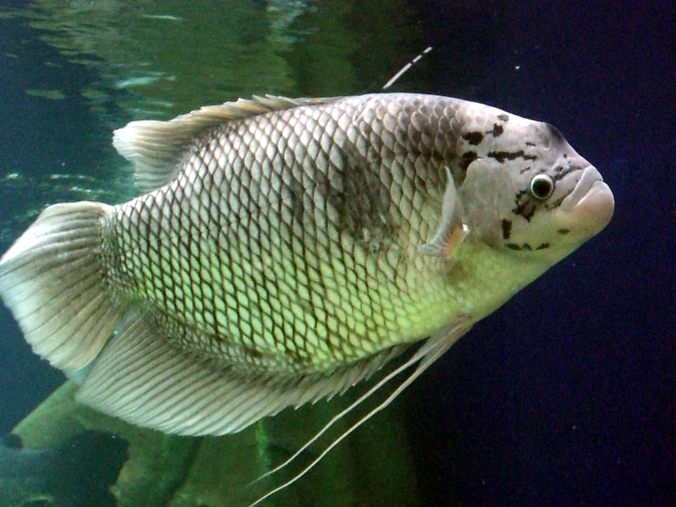 Giant gourami Osphronemus goramy